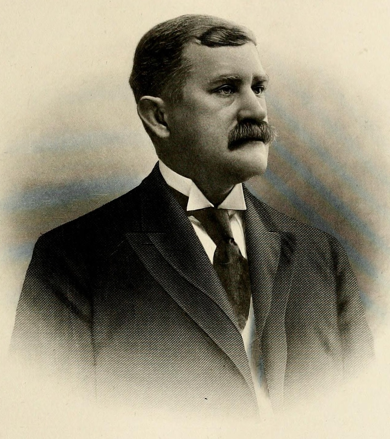 Daniel Lafean, Pennsylvania Congressman.